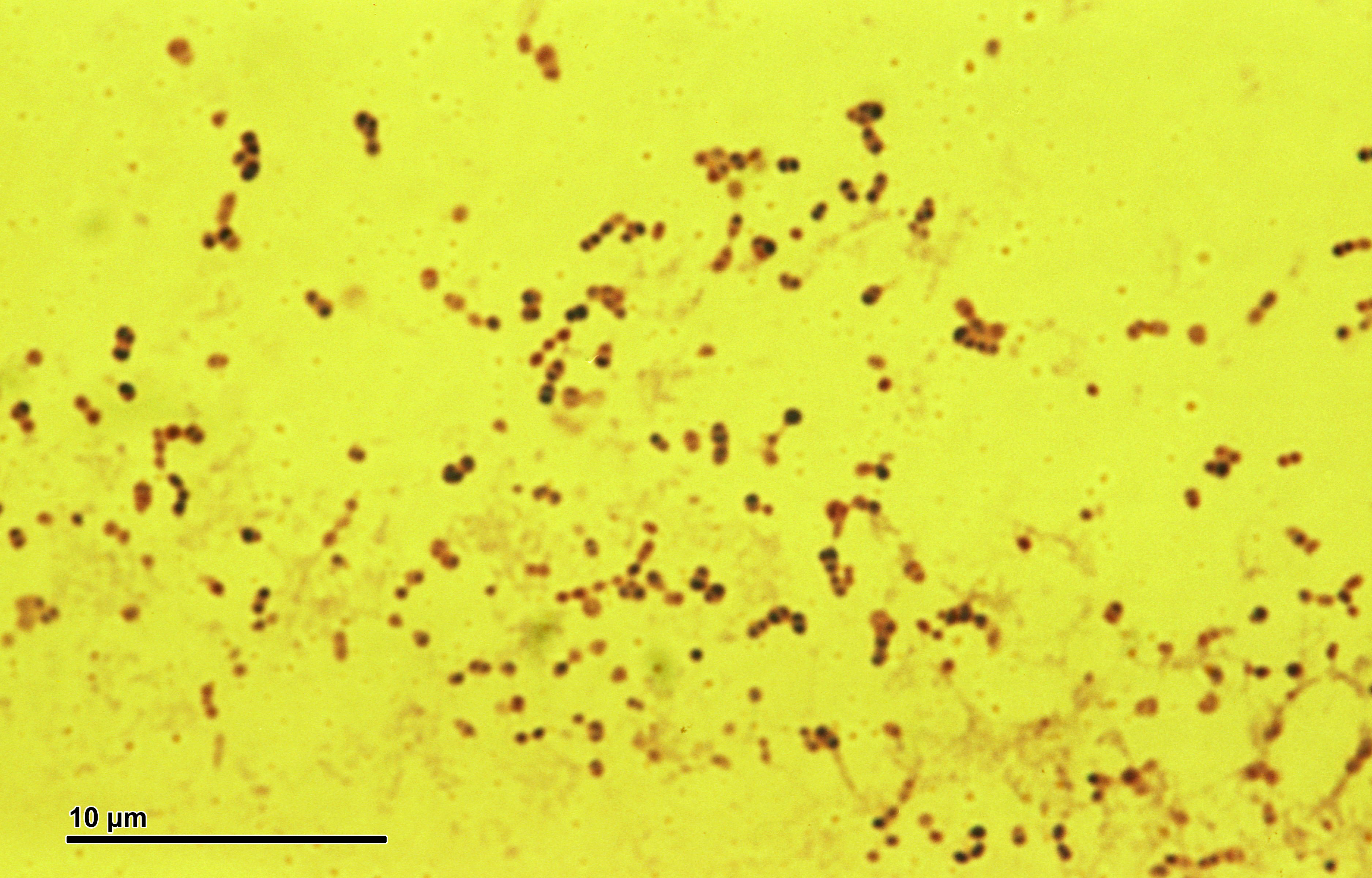 Pneumococcus . Optical microscopy technique: Bright field. Magnification: 6000x (for picture width 26 cm ~ A4 format).